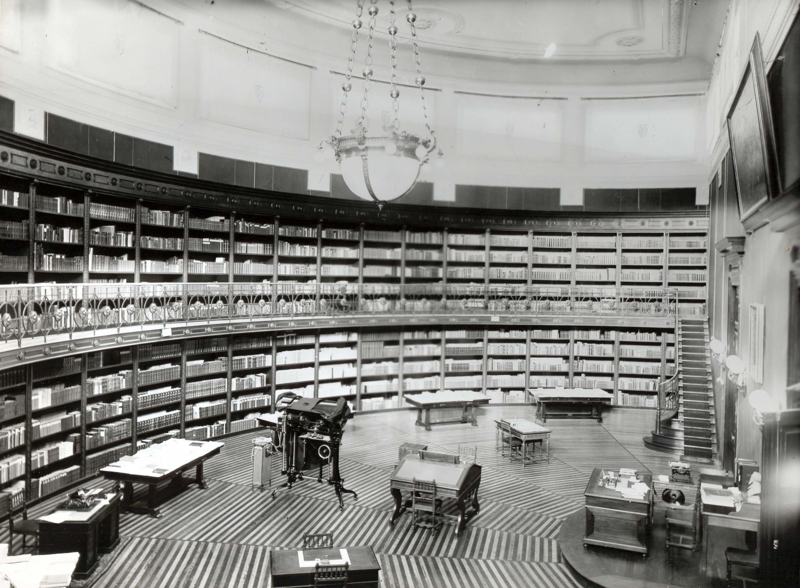 The Florentino Ameghino Library was created in 1884 as the Library of the Museum of Natural Sciences of La Plata, Argentina